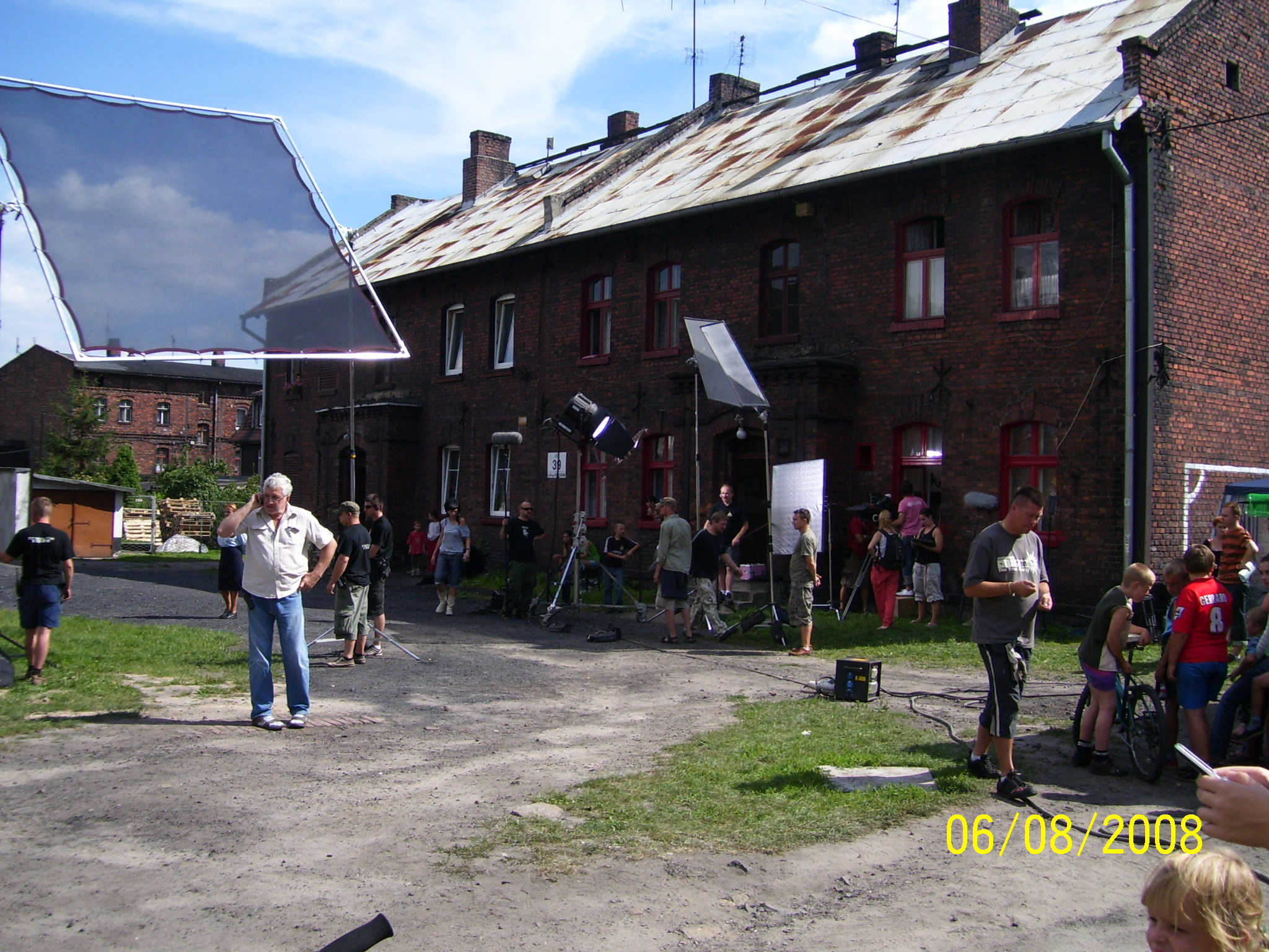 Main plan film 'Zgorszenie publiczne'